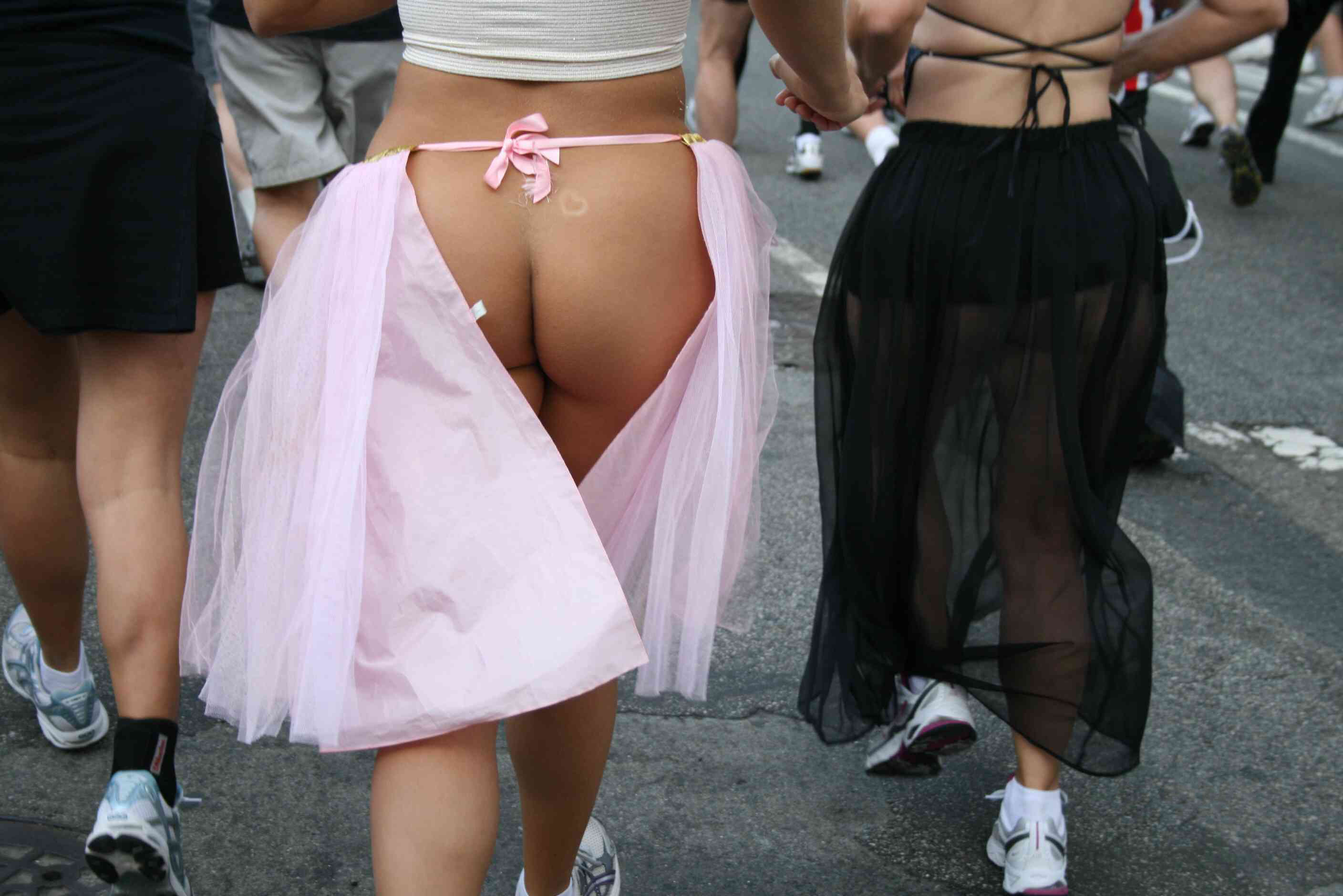 That's San Francisco for you